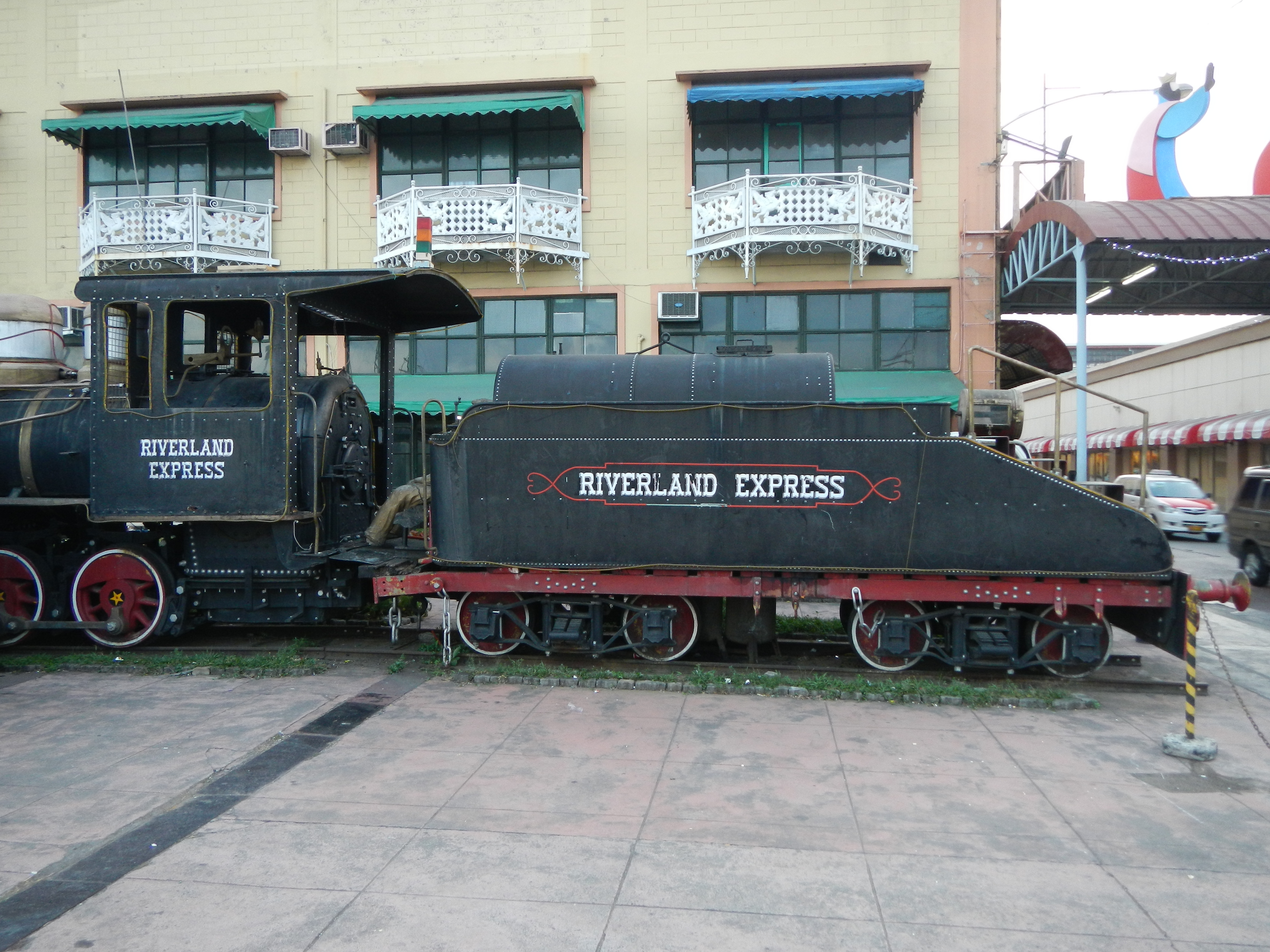 Upload Wizard photos of Marikina City [1] Hall Complex Compound -- Shoe Capital of the Philippines - Riverland Express locomotive, Jeep terminal, Marikina Sports Park, Riverbanks Center[2], including the Riverbank Mall, the Marikina City skyline, Marcos Highway,[3] Roman Garden at Marikina River[4] Park - Riverbanks Marikina a mall and office complex located off of Andres Bonifacio Avenue, Barangay Barangka, Marikina [5]City, near the Marcos Bridge over the Marikina River - world's largest pair of shoes are on display at Riverbank Center. 5.29 metres (17.4 ft) long and 2.37 metres 7 ft 9 in wide, equivalent to a French shoe size of 753, they were created over 77 days between August 5 and October 21, 2002 by Marikina City shoe industry businesspeople.